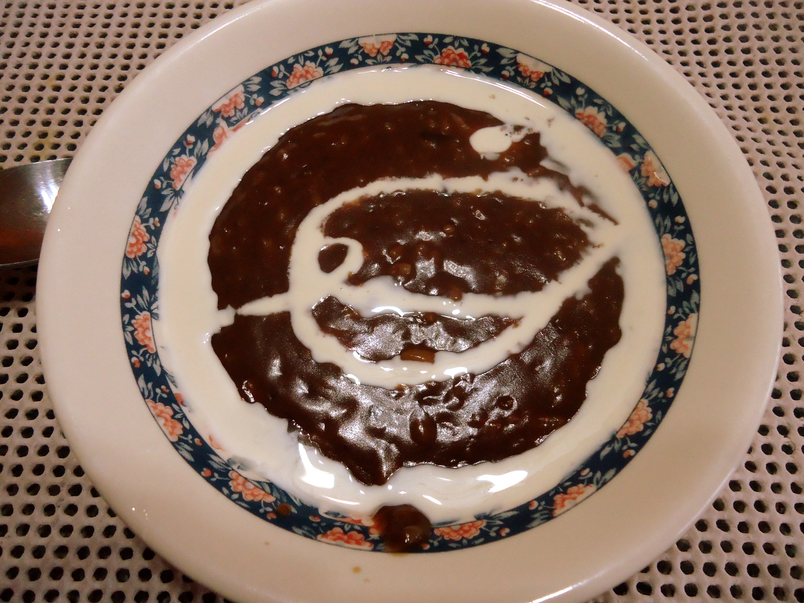 Champorado, sweet chocolate rice porridge in Philippine cuisine.